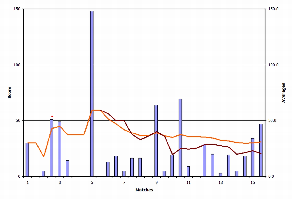 Test Cricket Career Graph of Mahendra Singh Dhoni. Orange line indicates progression of career average while the brown line indicates ten most recent innings at that point. Red dot indicates that Dhoni remained non-out at the end of the innings.